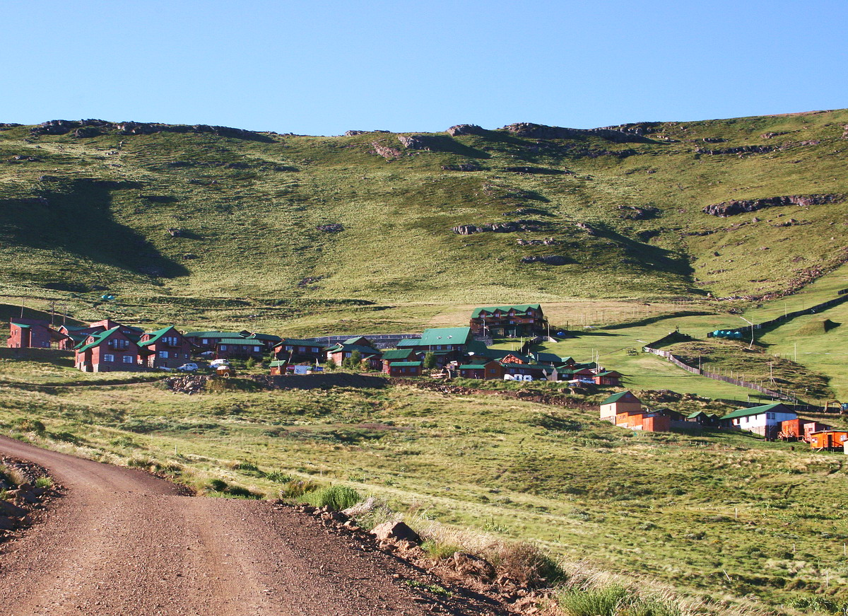 Tiffindell approach during summer